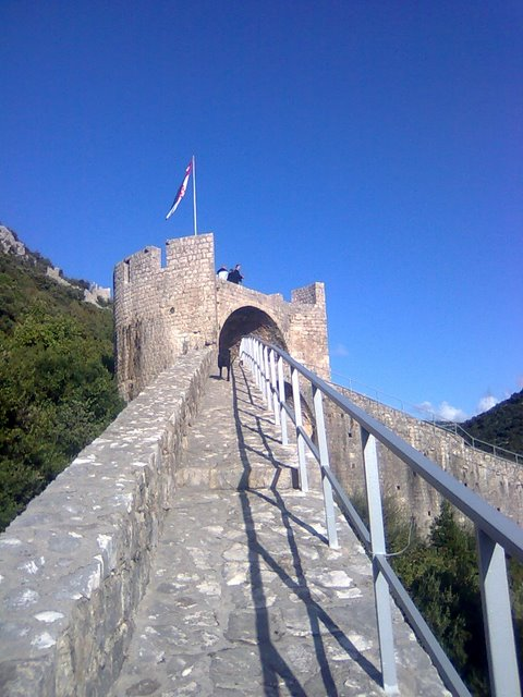 City walls of Ston